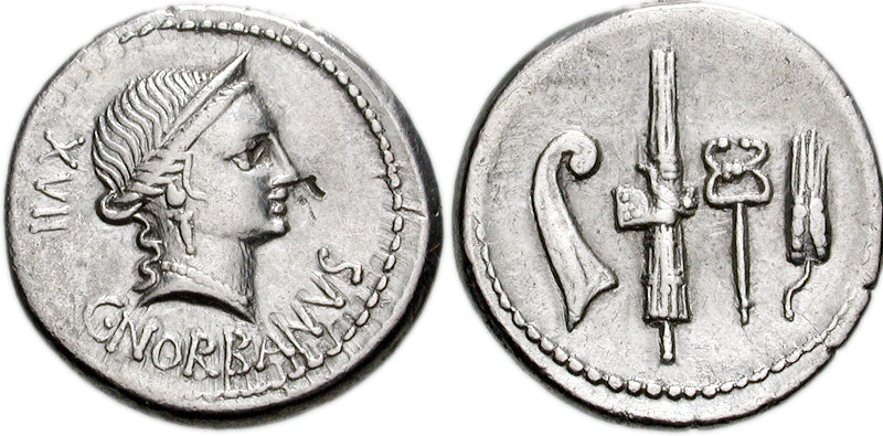 C. Norbanus 83 BC. AR Denarius (20mm, 3.82 g). Head of Venus right, wearing stephane, earring, and necklace; XVII behind / Prow-stem, fasces, caduceus and grain ear. Crawford 357/1a; Sydenham 740; Norbana 1. VF, nicely centered, obverse banker’s mark. The rarer of the two C. Norbanus varieties.